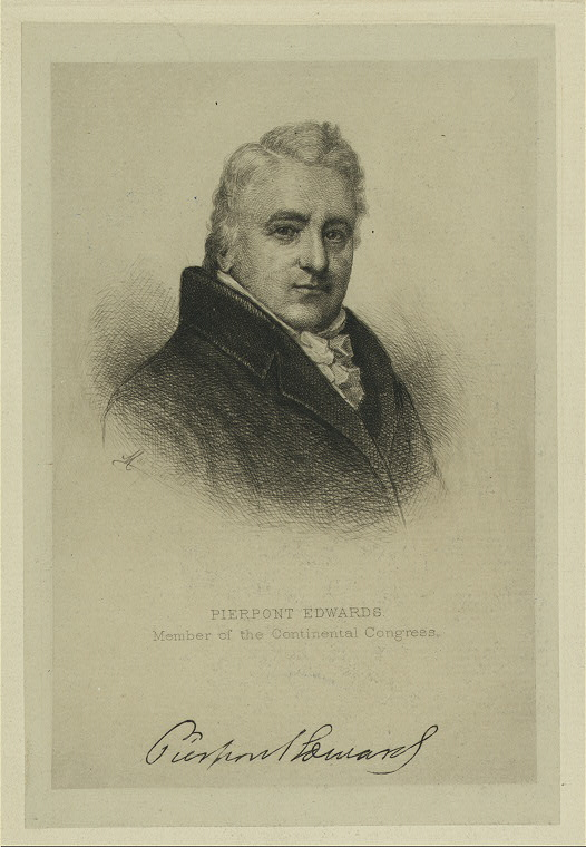 Pierpont Edward, Delegate to Continental Congress